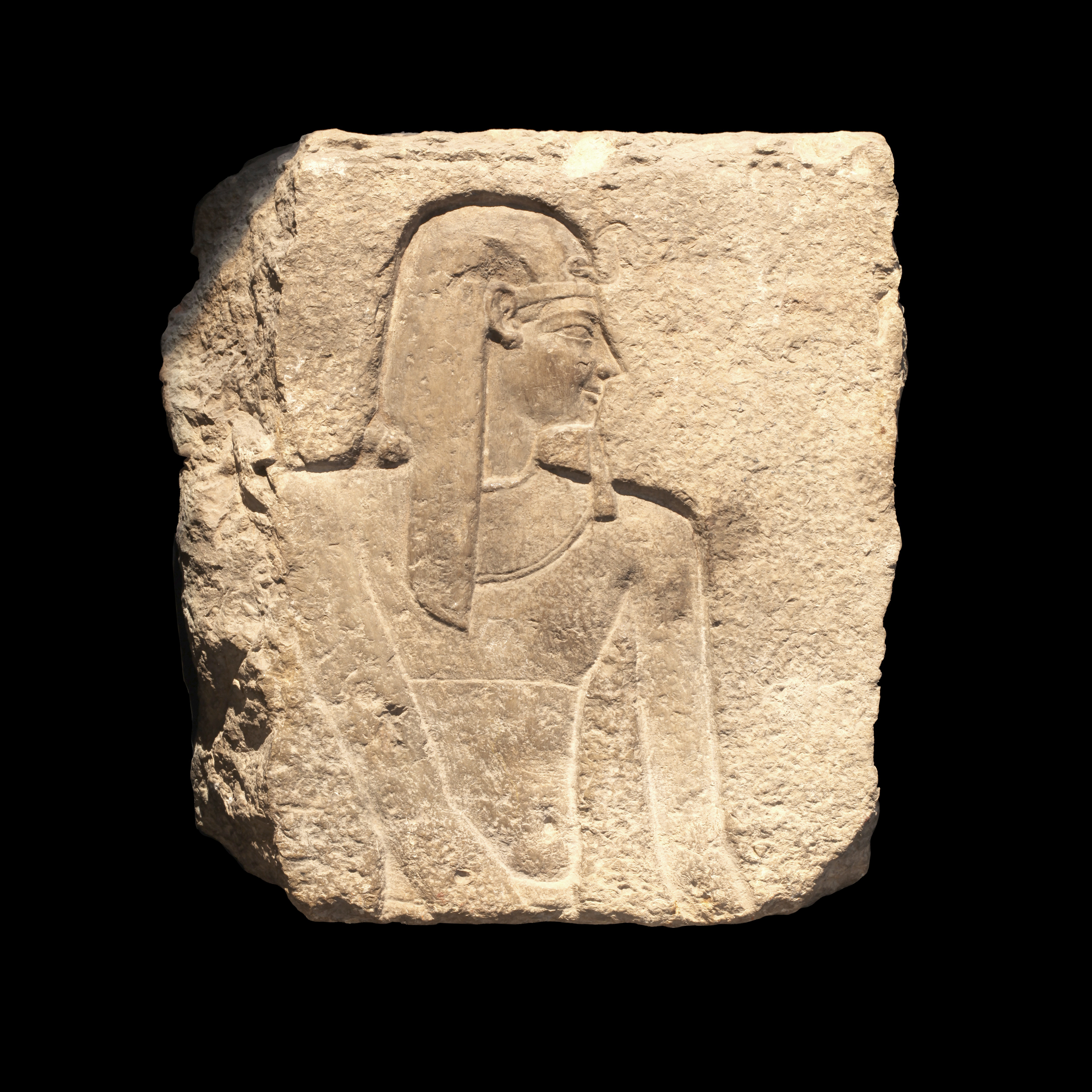 Caesarion (?) wearing the nemes